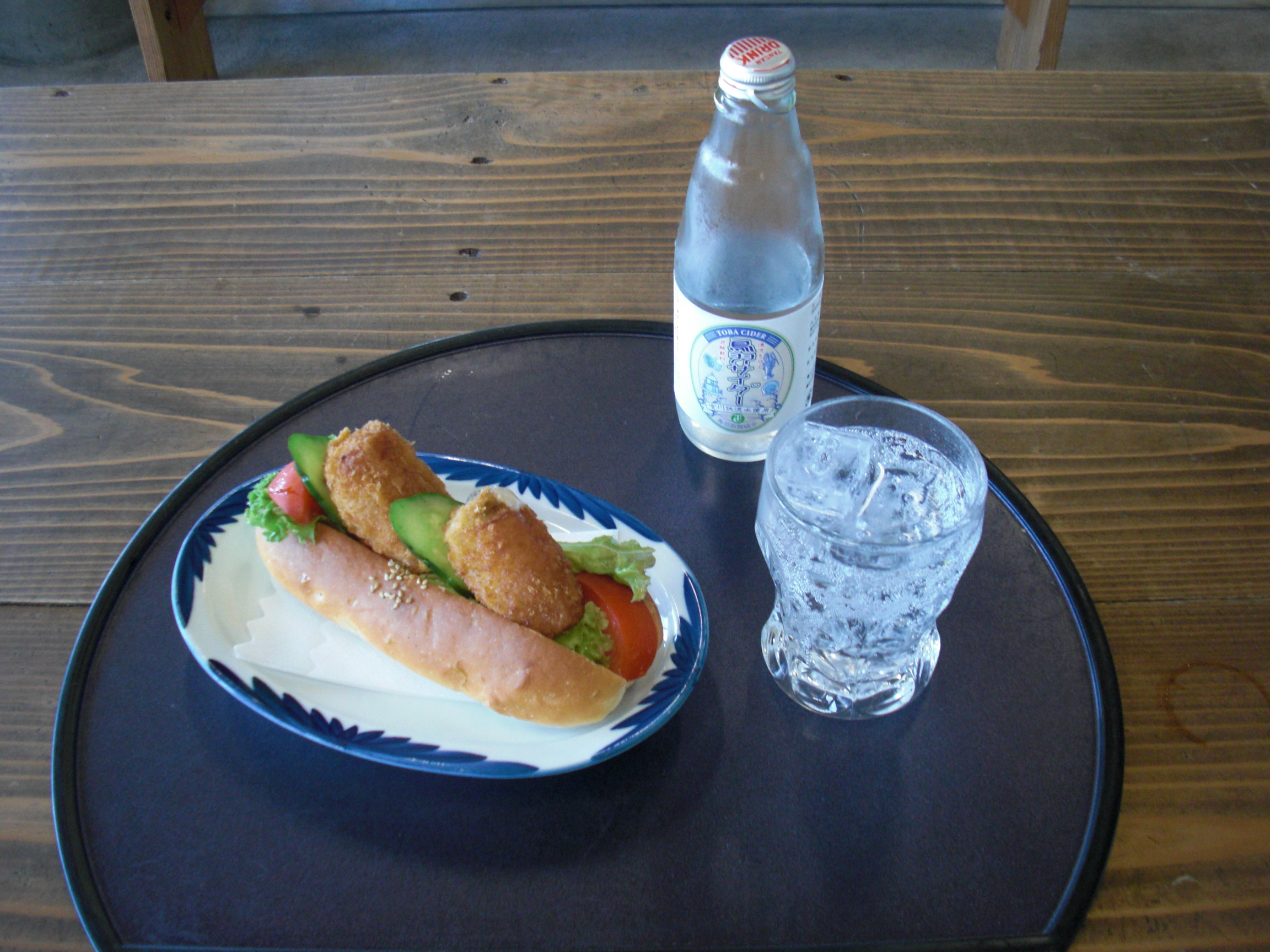 This is a Tobarger (Hamburger of Toba city) and Toba cider. This was surved at Yokichiya in Toba, Mie, Japan.